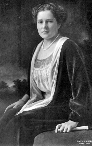 Archduchess Maria Alice of Austria-Teschen (1893 – 1962)